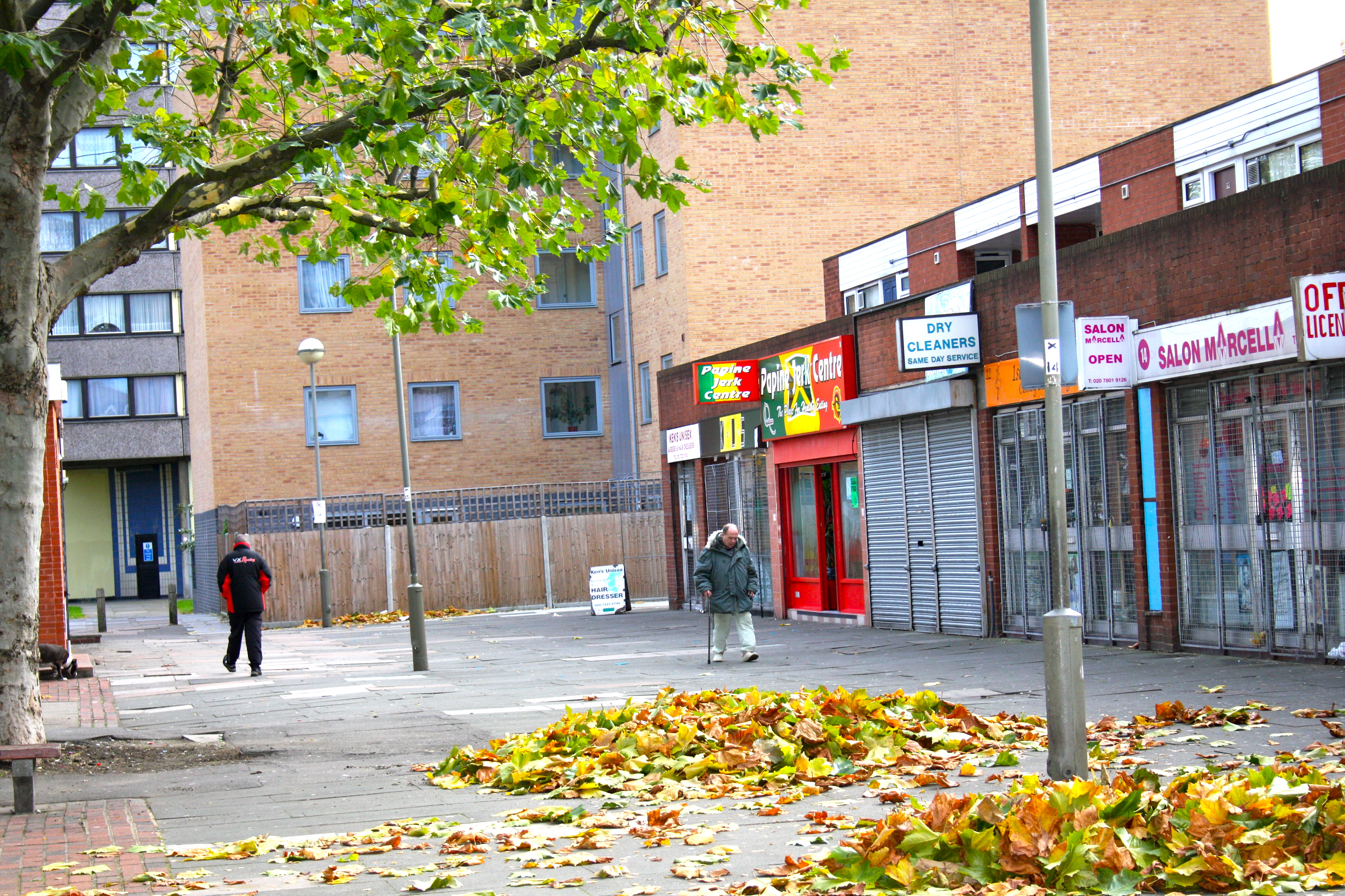 The Winstanley and York Road Estates in Battersea are due to be regenerated. These images uploaded for free use by local Labour councillor Simon Hogg